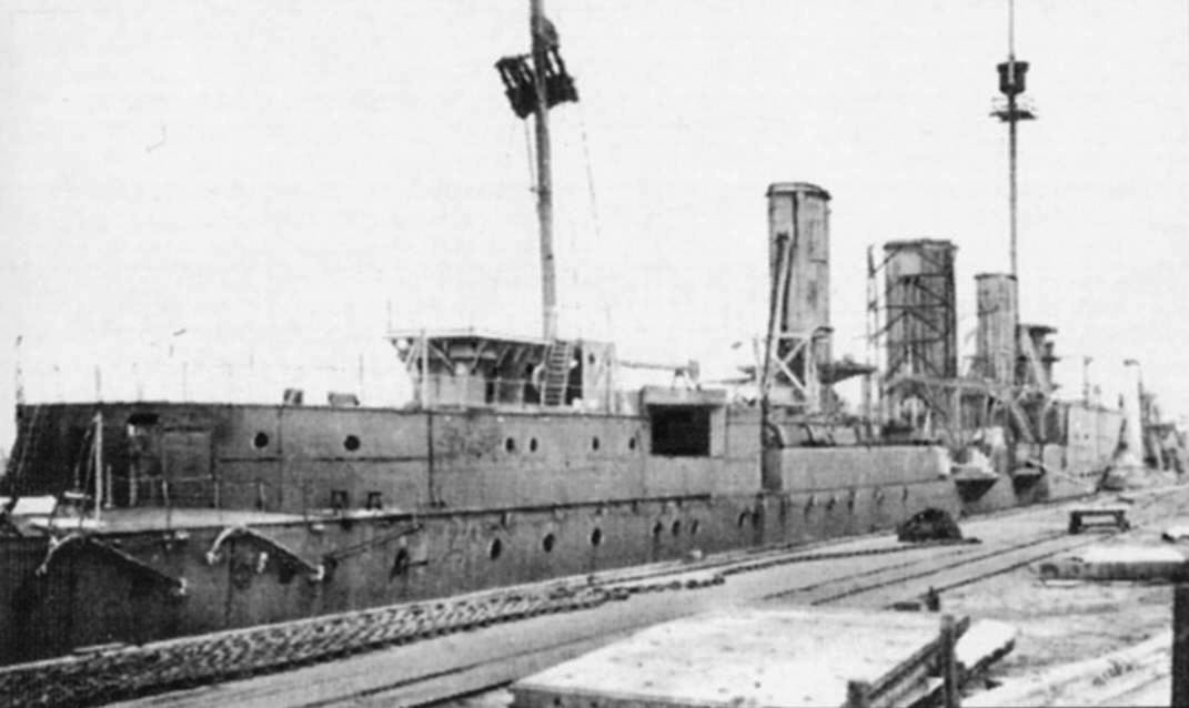 Light cruiser Admiral Nakhimov in Mykolaiv, 1918.